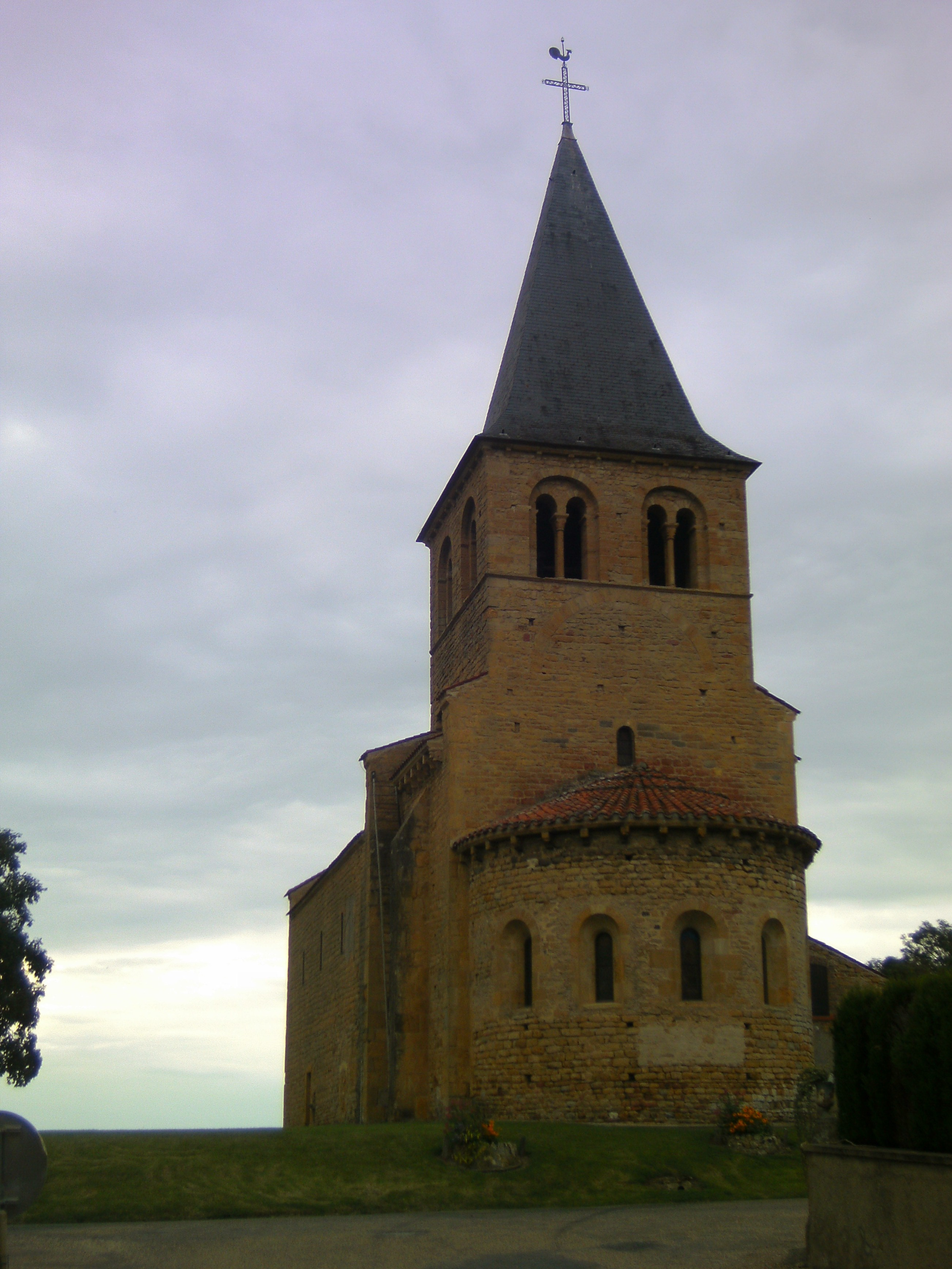 Church XIe century.